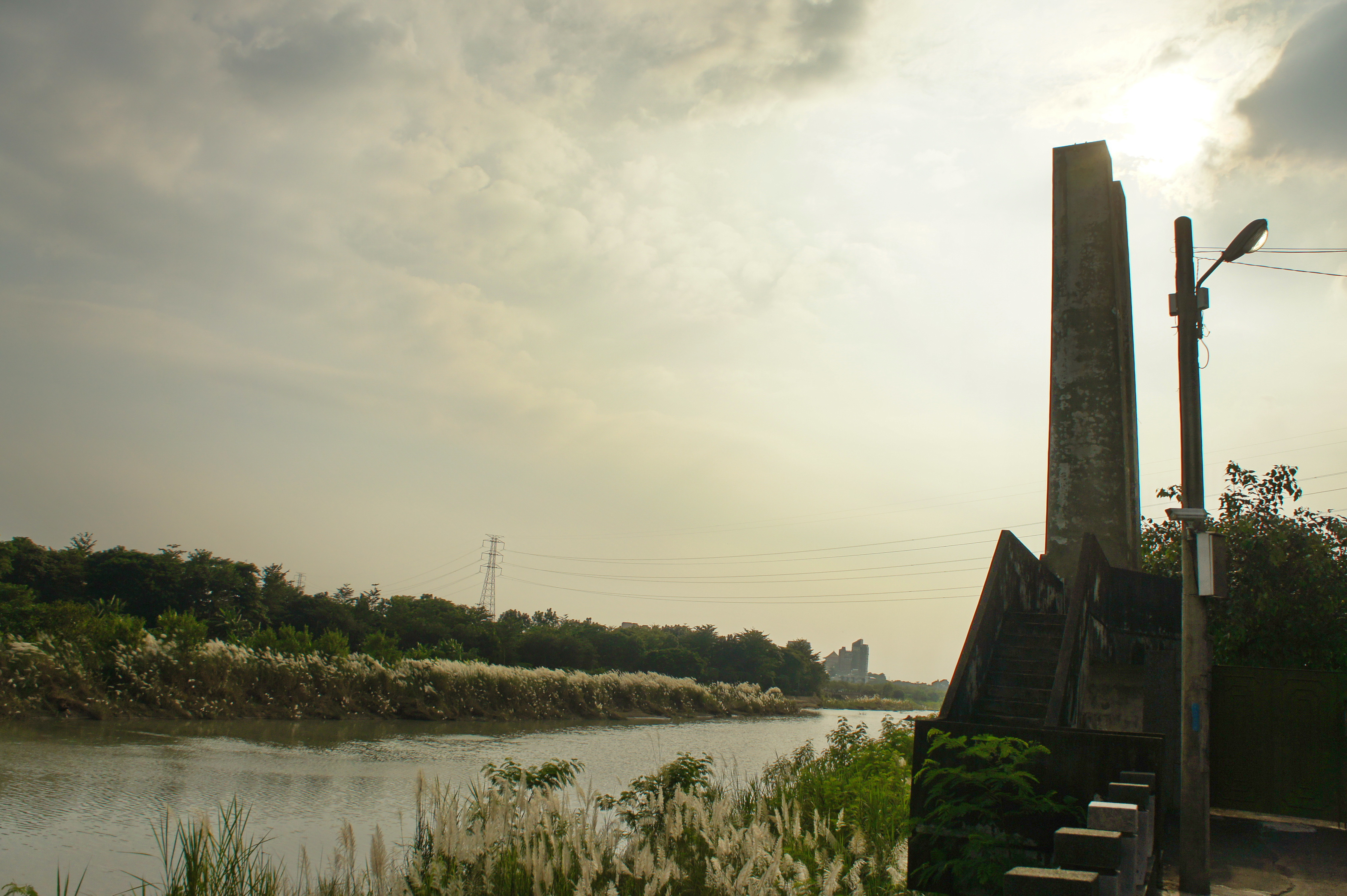 Bajiang River Bridge Remnants, Chiayi City, Taiwan.